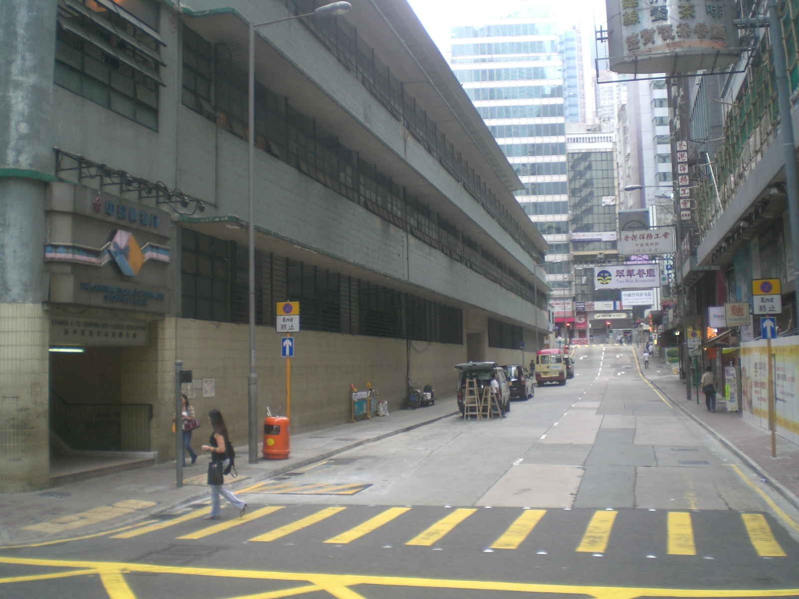 中環電車風景 德輔道中景觀